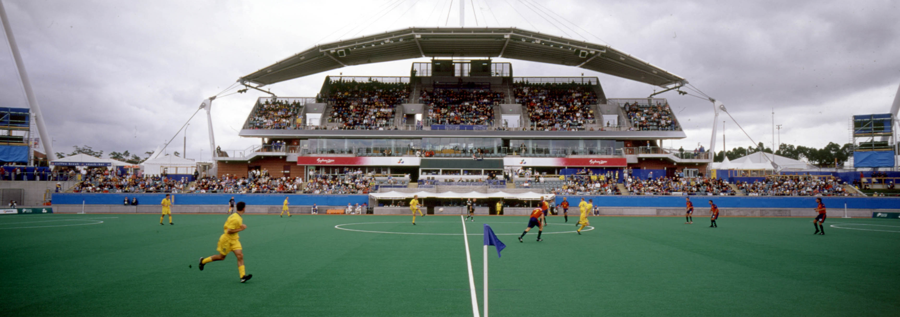 Panoramic view of the venue for football (soccer) during the 2000 Sydney Paralympic Games. A match can be seen played on field in front of the stadium.